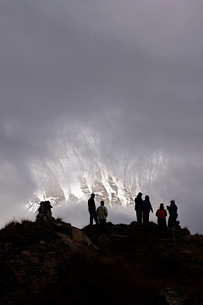 The south face of Annapurna from the trekker's lodgings in the Annapurna Sanctuary.